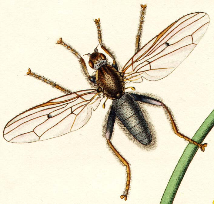 An illustration of Helcomyza ustulata from British Entomology: (1824–1840).